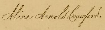 Alice Arnold Crawford signature, from an 1875 publication.